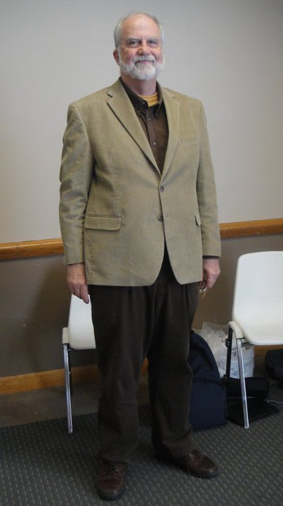 James T. Collins, professor of Malay language at Northern Illinois University.